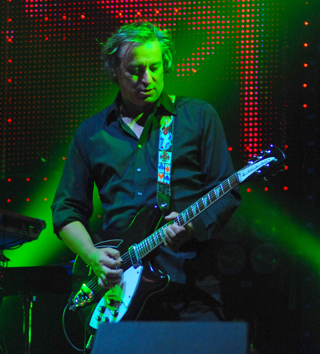 Peter Buck (REM), Taken at the Lancashire County Cricket Club, Manchester, 24 August 2008.